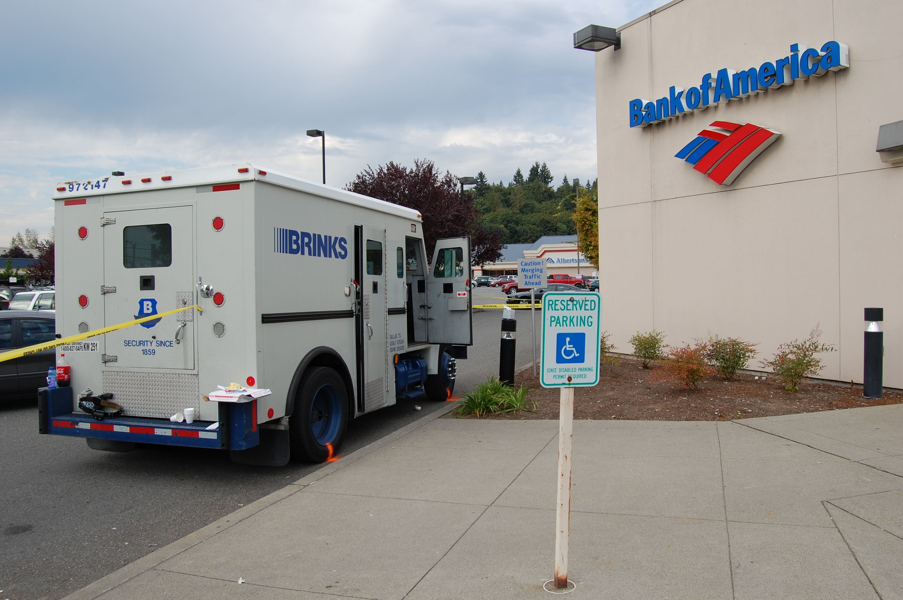 Brink's armored car in Monroe, Washington on September 30, 2008